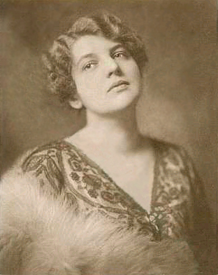 German actress Lissy Lind aka Lissy Krueger, photographed by Nicola Perscheid